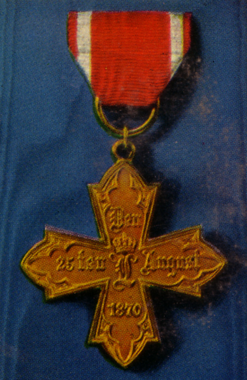 Hesse Military Medical Cross (1870)